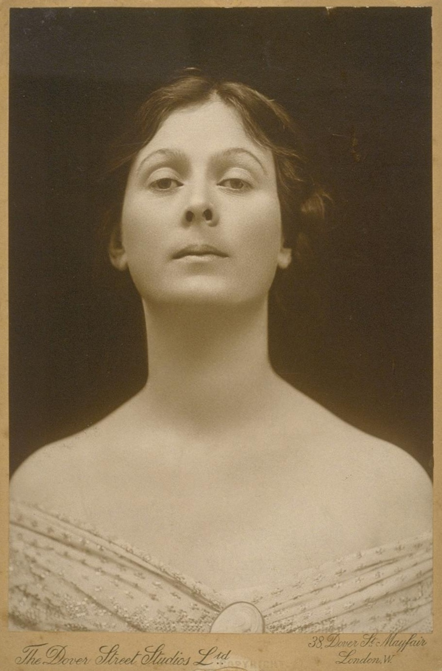 Portrait of Isadora Duncan.